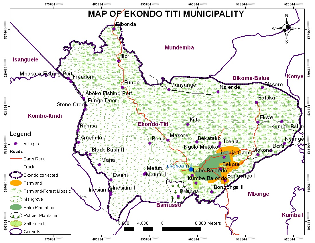 Number of municipal councilors 31 Surface Area 1750km2 Population Density 32.28km2 Number of inhabitants 56,503 Date of creation 29/06/77 Created in 1977 by Presidential decree No.77/205 of 29/06/1977, splitting the then Ndian area council into four new councils; Ekondo-Titi, Mundemba, Bamusso and Isangele. The Ekondo-Titi council has a population of about 56,503 inhabitants on 1.750 square kilometres surface area. The sub-division is made up of the maritime and the main land area. The main land area is composed of 26 villages (Dibonda, Loe, Illor, Funge, Ekondo-Nene, Masore, Kitta, Nalende, Munyenge, Bisoro, Bafaka, Pondo, Kotto, Kumbe Balue, Ekwe, Njima, Iribanyange, Dora, Mokono, Bekatako, Lipenja, Bongongo I, Bongongo II, Lobe Town, Kumbe Balondo and Berenge), 1 C.D.C workers camp(Beyanga) and 3 urban spaces(Ekondo-Titi, Bekora and Lobe Estate), while the maritime constitutes the 19 kombos (Eweni, Aruchuku, Aboko, Funge Door mouth, Bakara, Benja, Stone creek, Godgift, Freedom, German Beach, Nyanga, Matutu I, Matutu II, Inesium I, Inesium II, Black Bush I, Black Bush III, Kombo Maria, Rumsa,).